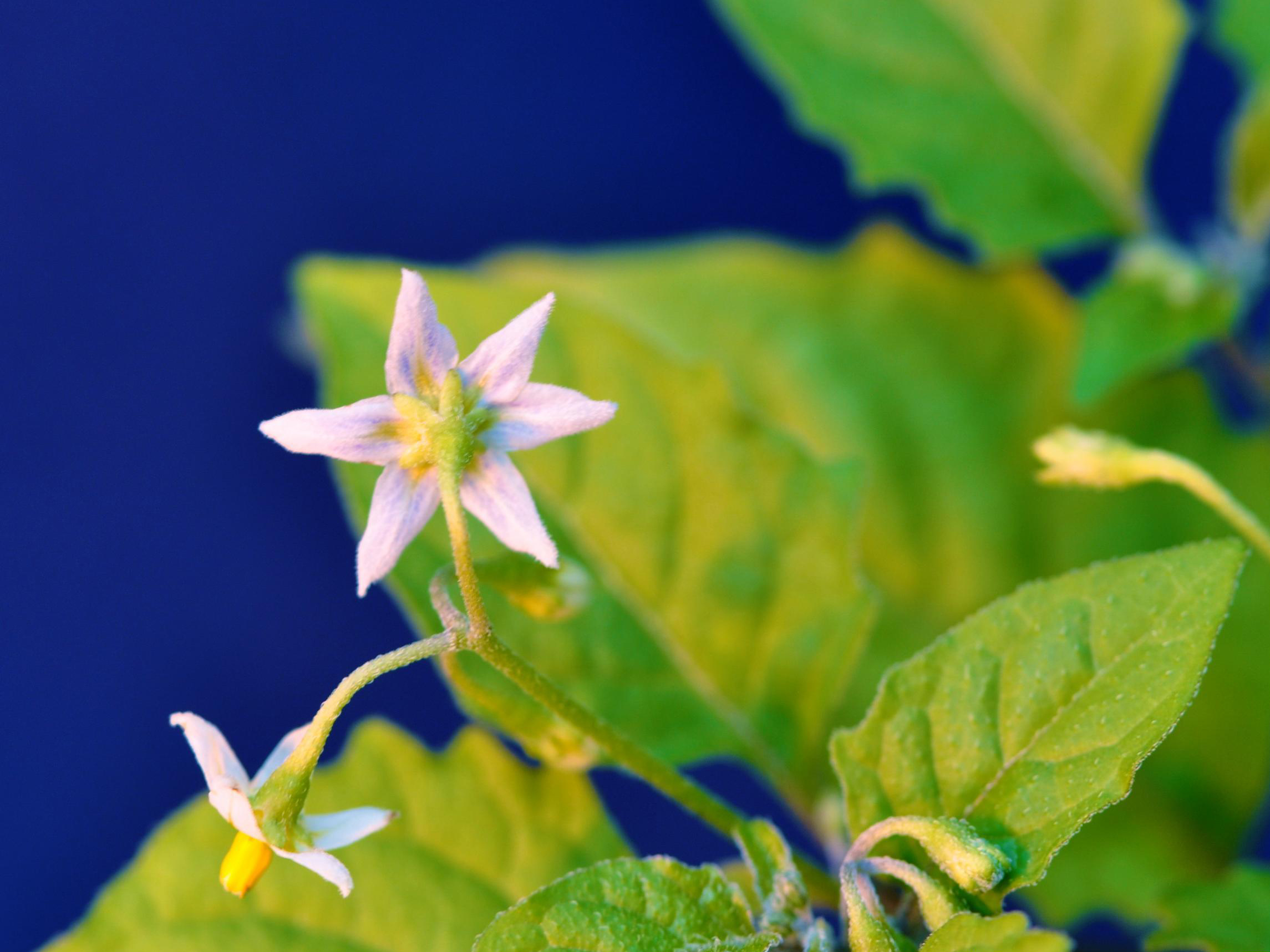 Solanum ptychanthum Dunal - West Indian nightshade